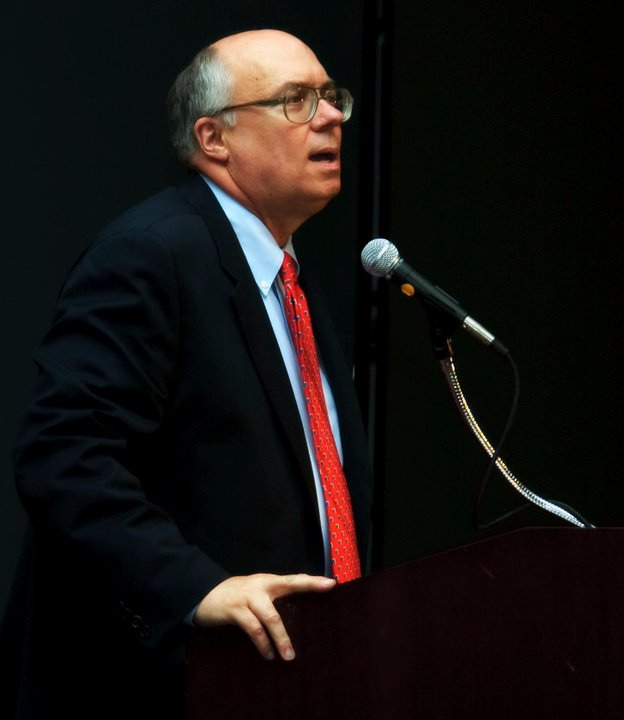 State Senator Joe Simitian speaking at the TeachAIDS inaugural gala in 2010